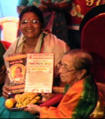 Vidushi Shashikala Dani honoured with 'Gayana Ganga' award by PadmaVibhushan Dr. Gangubai Hangal